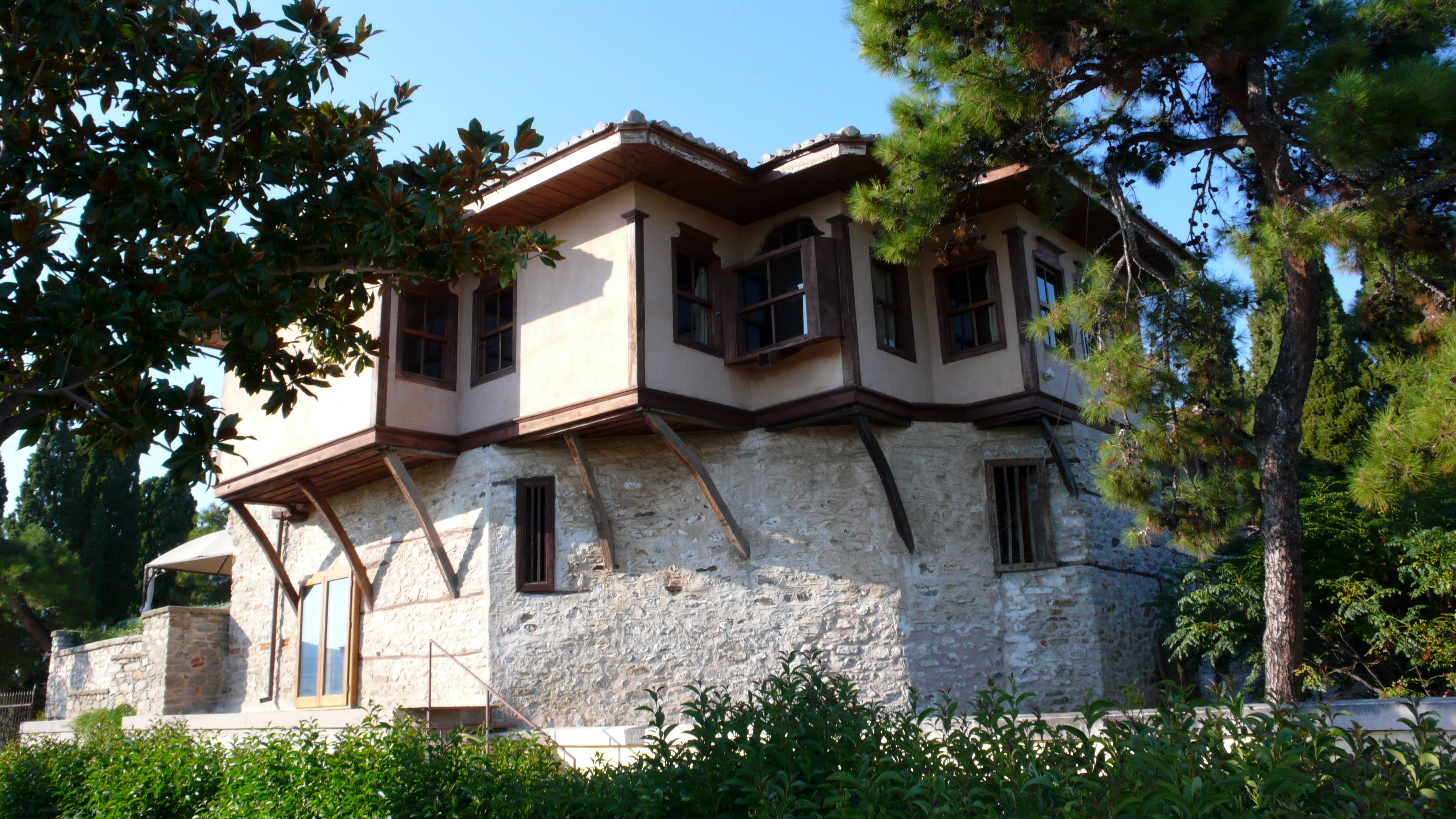 Kavala, Mohammed Ali Haouse